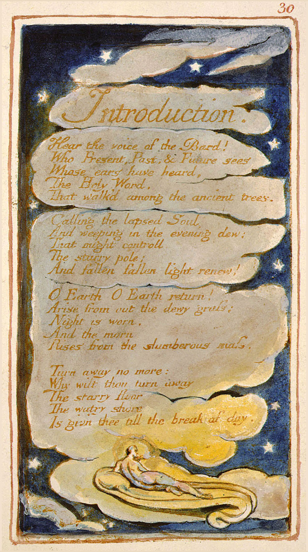 Songs of Innocence and of Experience, copy AA, 1826 (The Fitzwilliam Museum) - SE -Intro